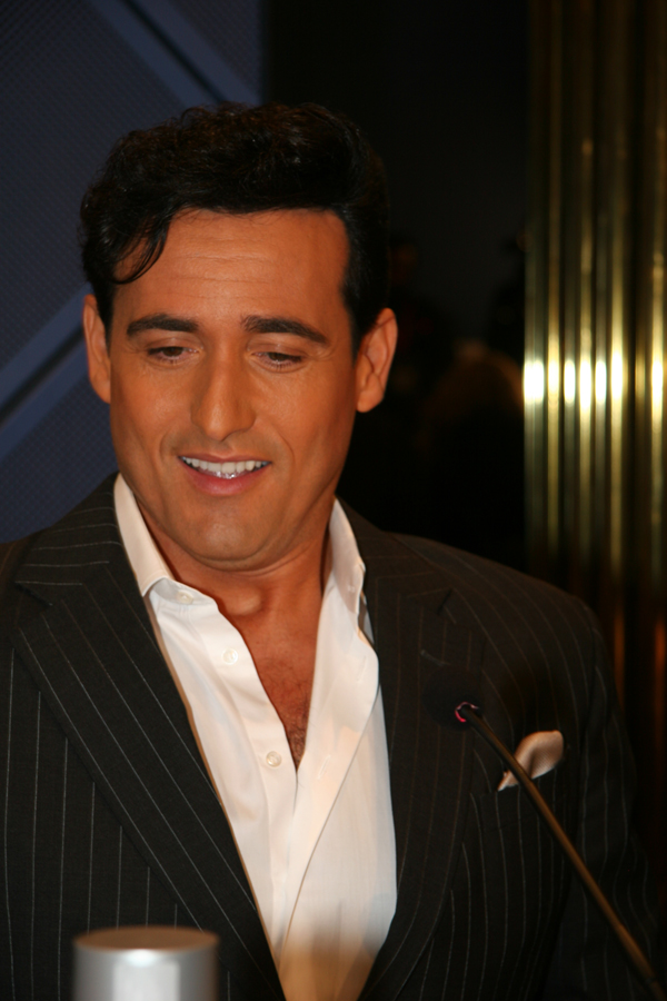 Nobel Peace Prize Concert 2008, Il Divo, Carlos Marín